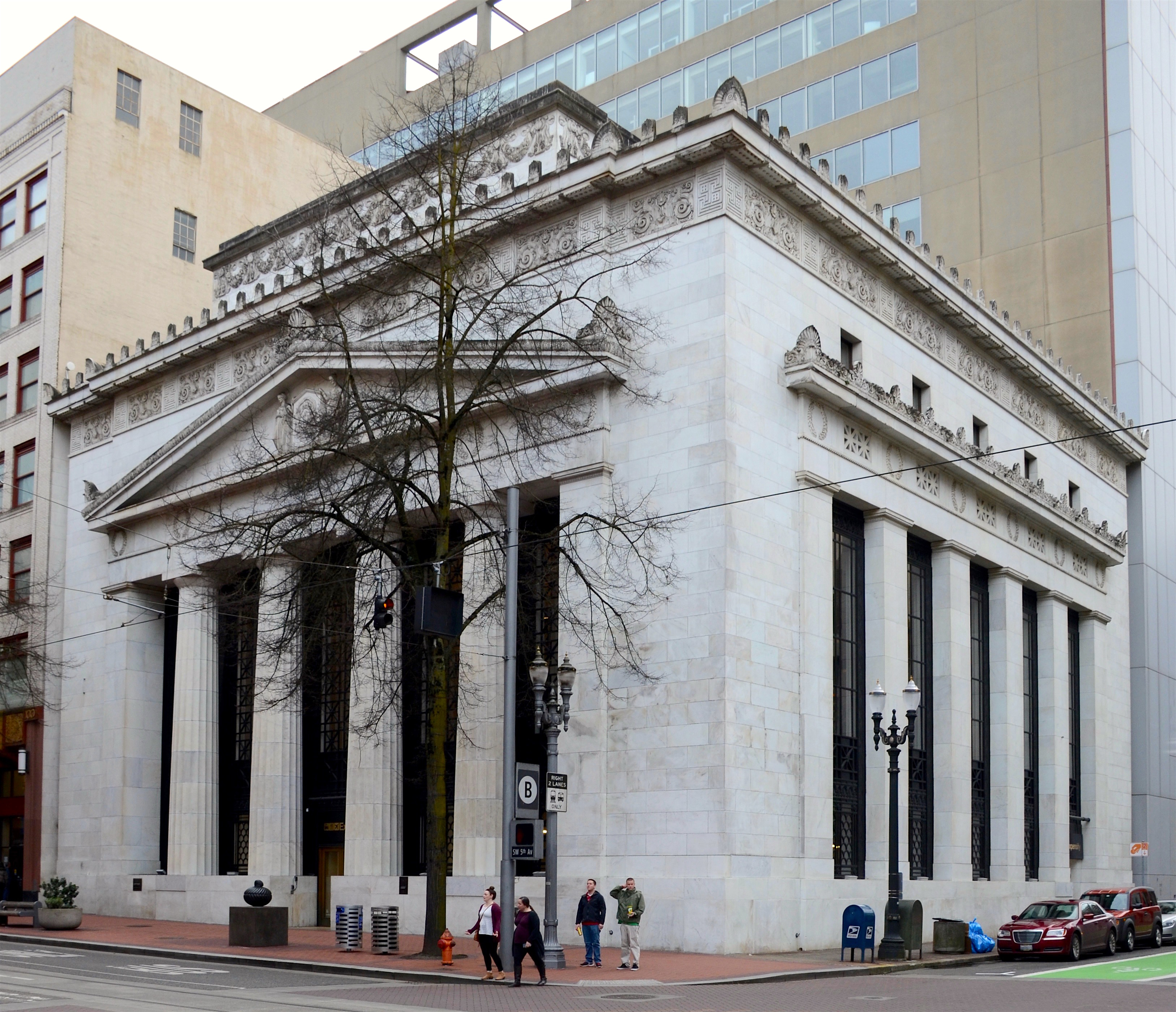 The First National Bank Building, a former bank building in downtown Portland, Oregon, was built in 1916 and is listed on the U.S. National Register of Historic Places.